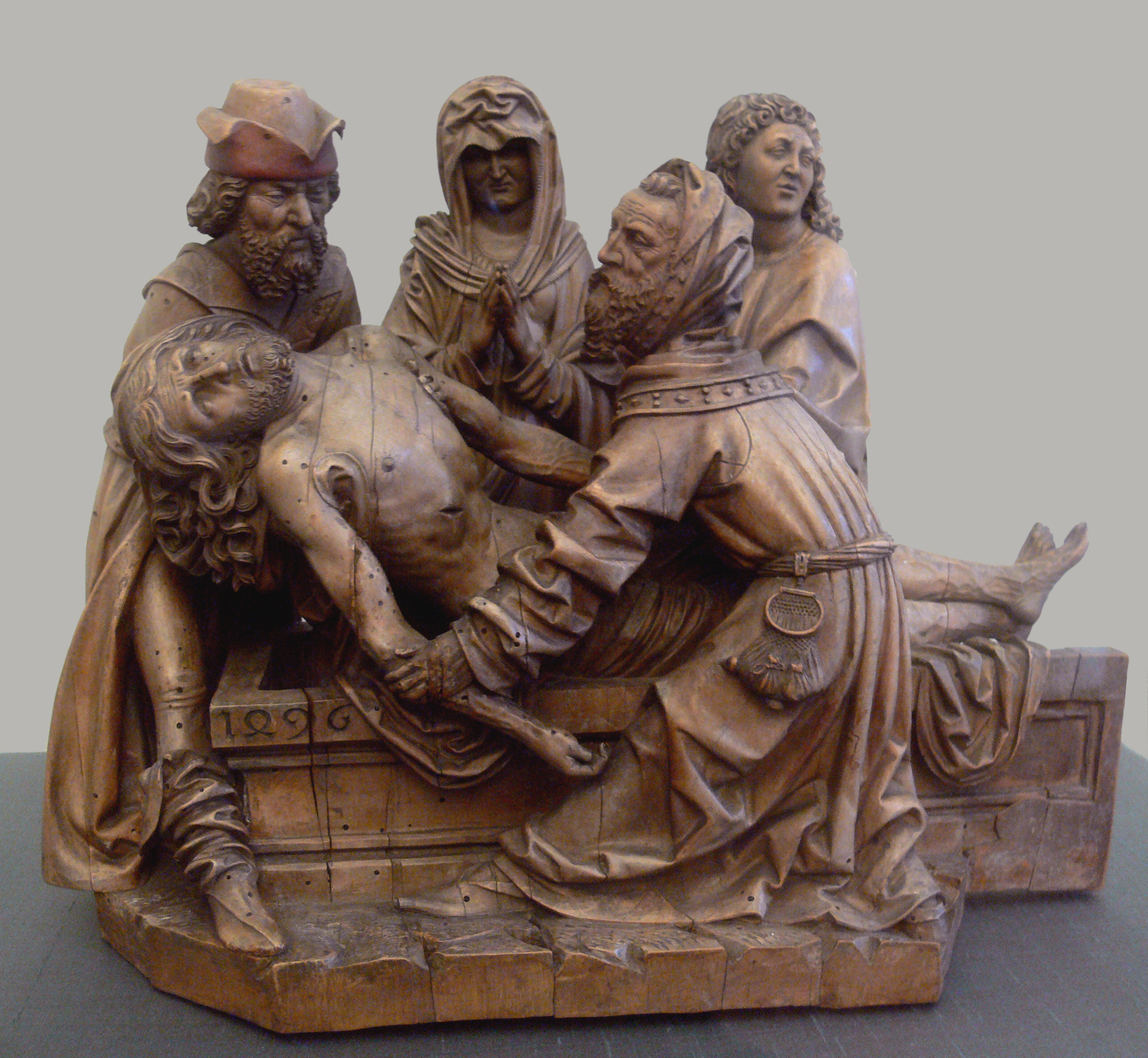 attributed to Conrat Meit, Hans Seyfer or Conrad Rötlin: Entombment of Christ, 1496 Bayerisches Nationalmuseum München, Inv. Nr. MA 1265, aus Schloß Ambras